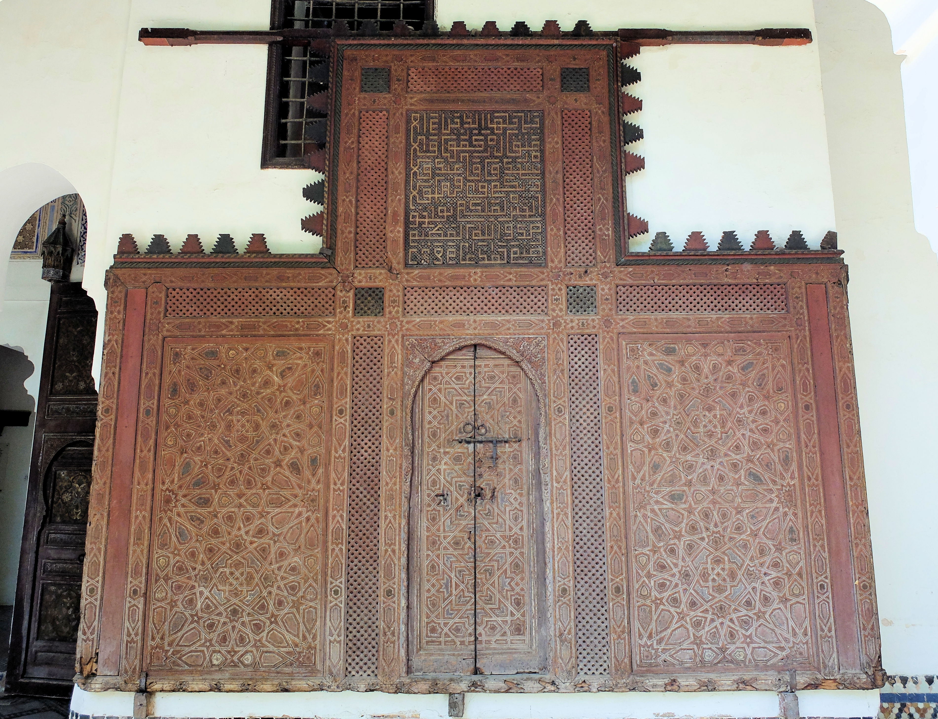 The maqsura of the Lalla Aouda Mosque, on display at the Dar Jamai Museum in Meknes. The maqsura is a wooden screen that separated and protected the sultan and his entourage from the rest of the public during prayers in the mosque. This is the central section of the maqsura. It dates from 1677, installed on the order of Sultan Moulay Ismail.